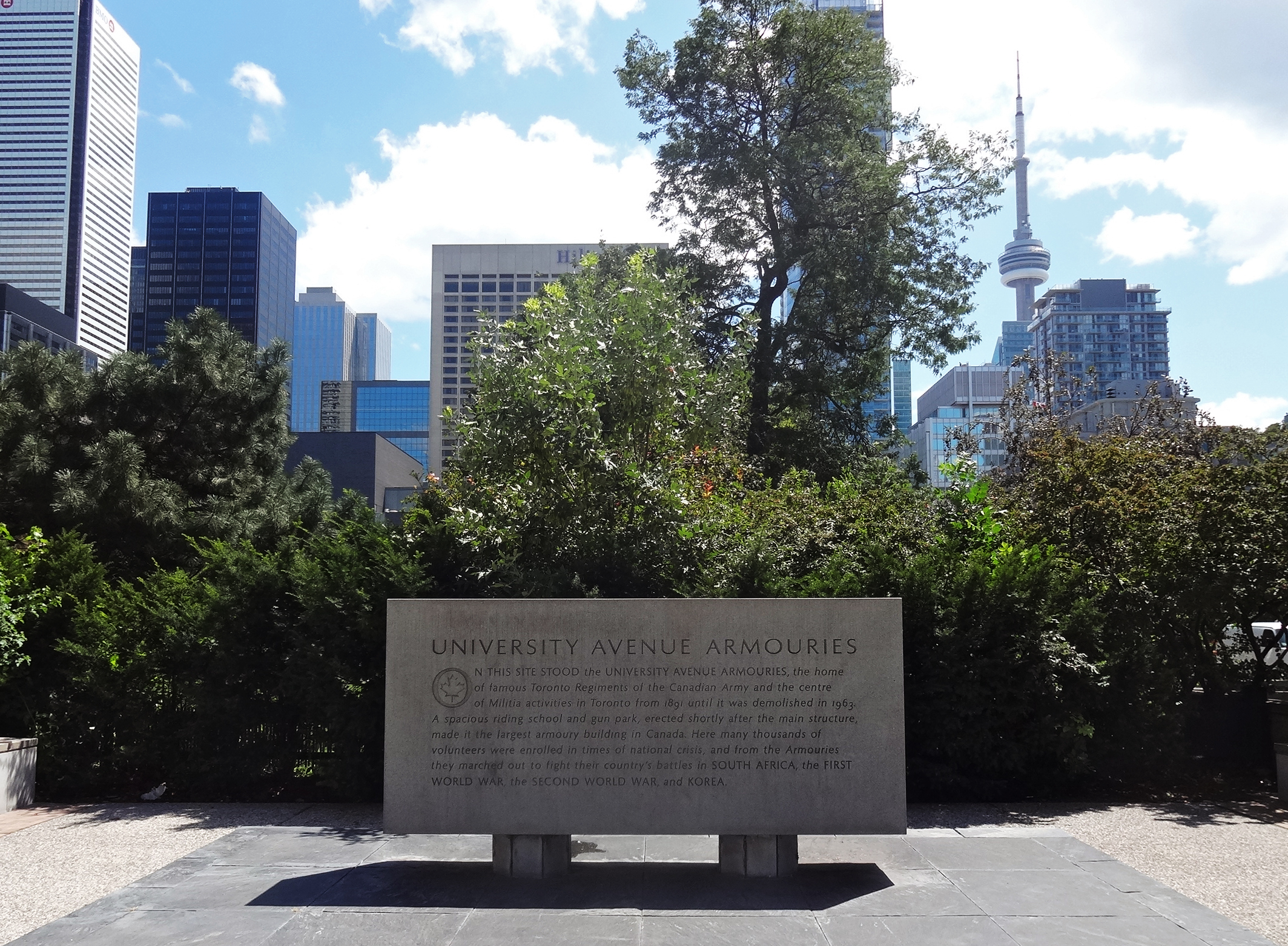 Sign about the University Avenue Armouries at University Avenue and Armoury Street.